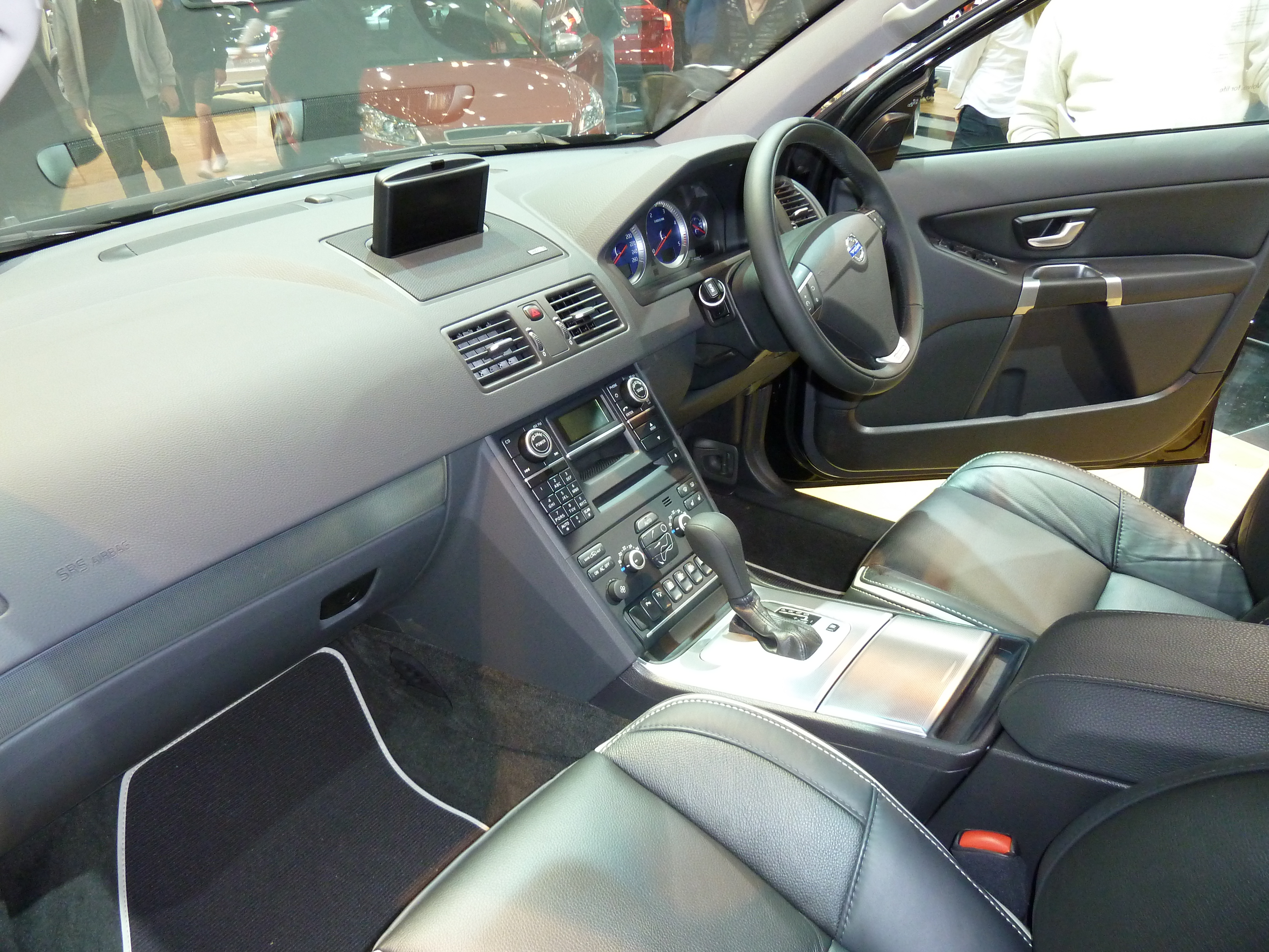 2010 Volvo XC90 (P28) D5 wagon. Photographed at the 2010 Australian International Motor Show, Sydney, New South Wales, Australia.